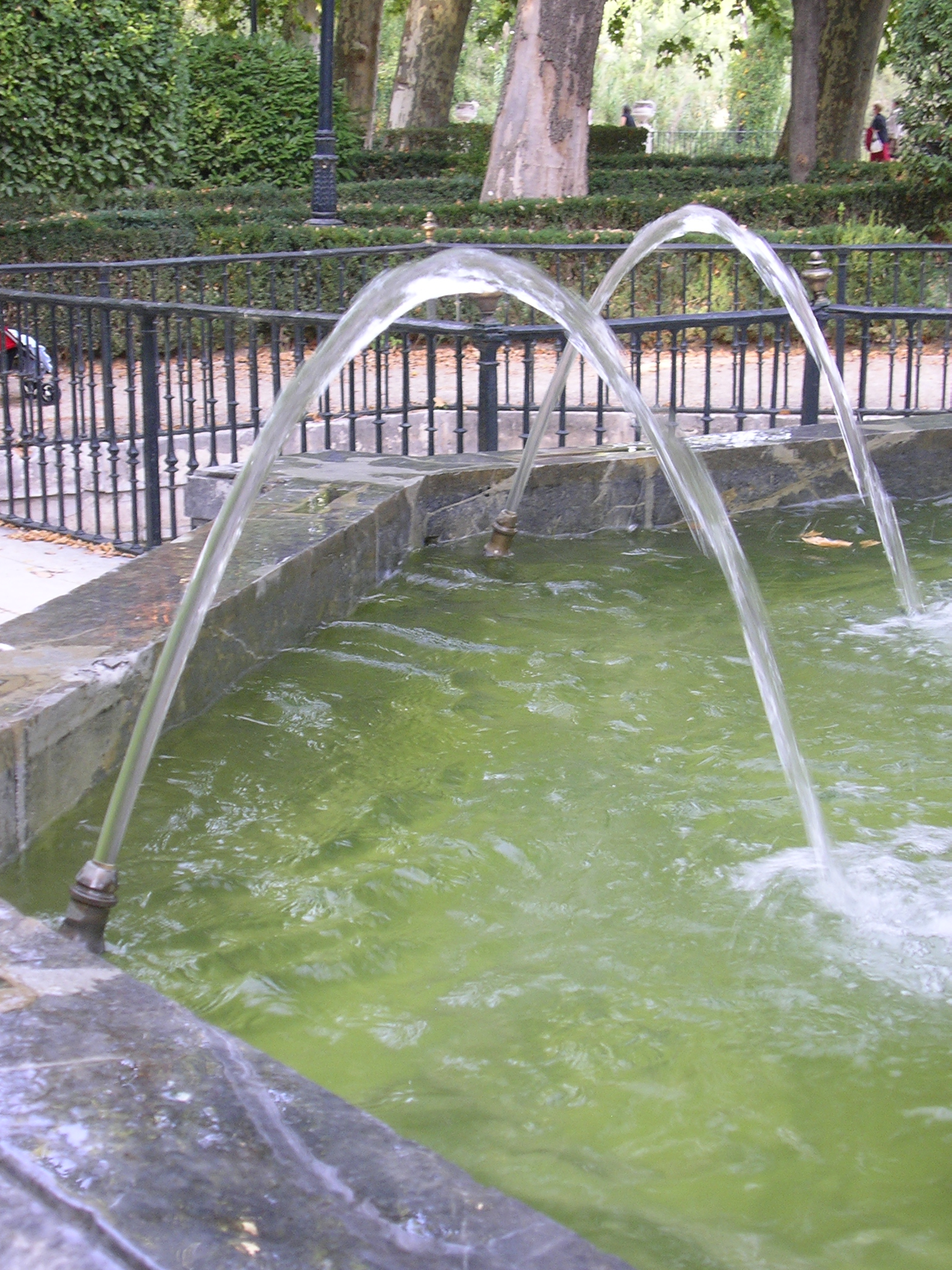 Parabolic trajectory of water. This fountain's water describes nearly a parabola (in fact, it is an ellipse- gravity is, at the earth surface, nearly constant.). Hercules fountain at Island's garden, Royal palace, Aranjuez, Madrid, Spain